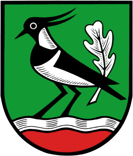 Coat of arms of the town Schönewörde